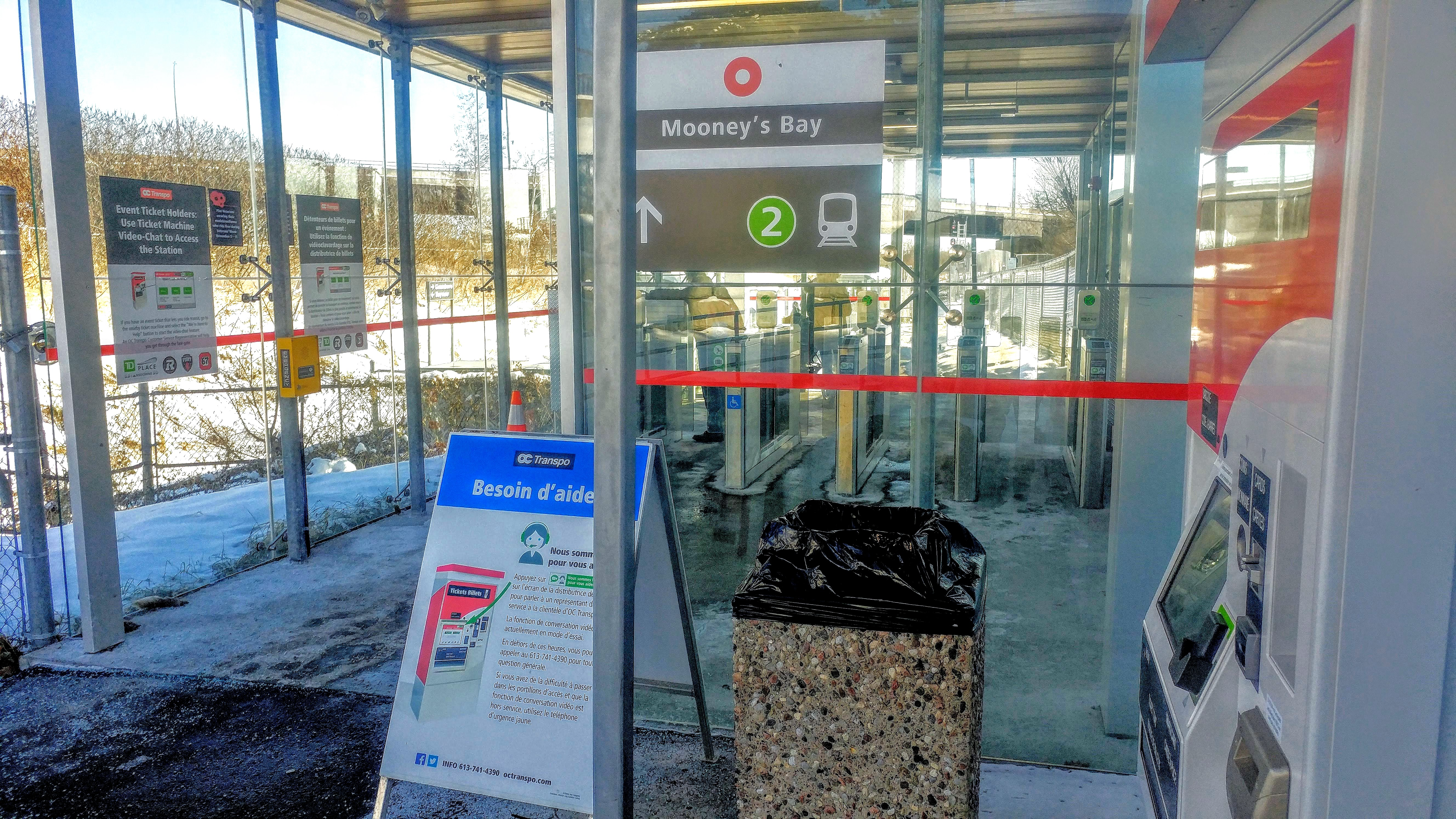 Entrance to Mooney's Bay O-train station on Line 2 Trillium in Ottawa, ON, Canada.